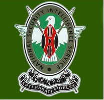 Flag of Kenyan IntelligenceKiswahili: Bendera ya NSIS